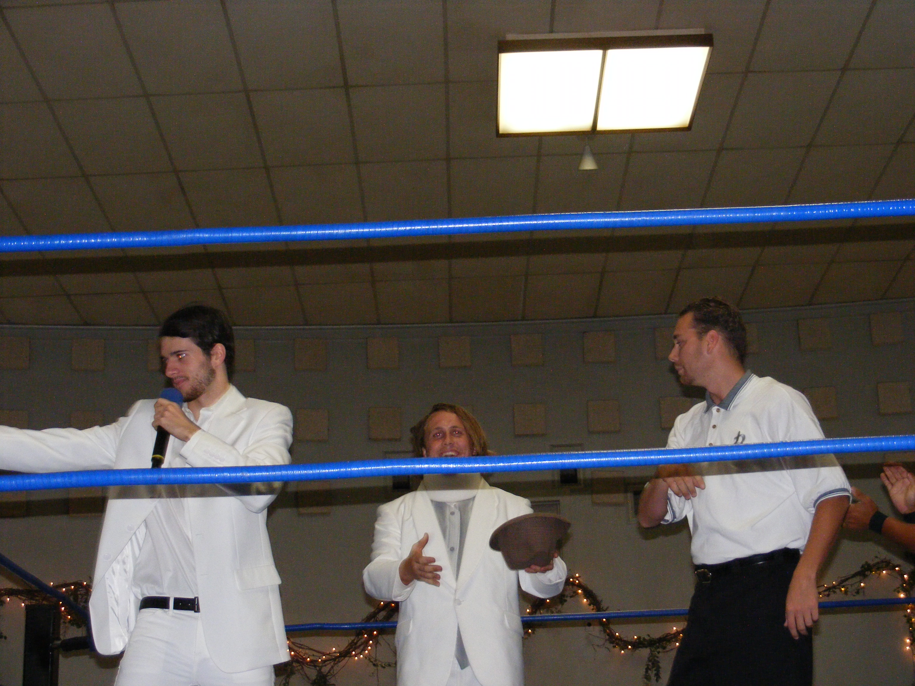 Dieter VonSteigerwalt, Jakob Hammermeier and Derek Sabato of the professional wrestling alliance Bruderschaft des Kreuzes at a Chikara show